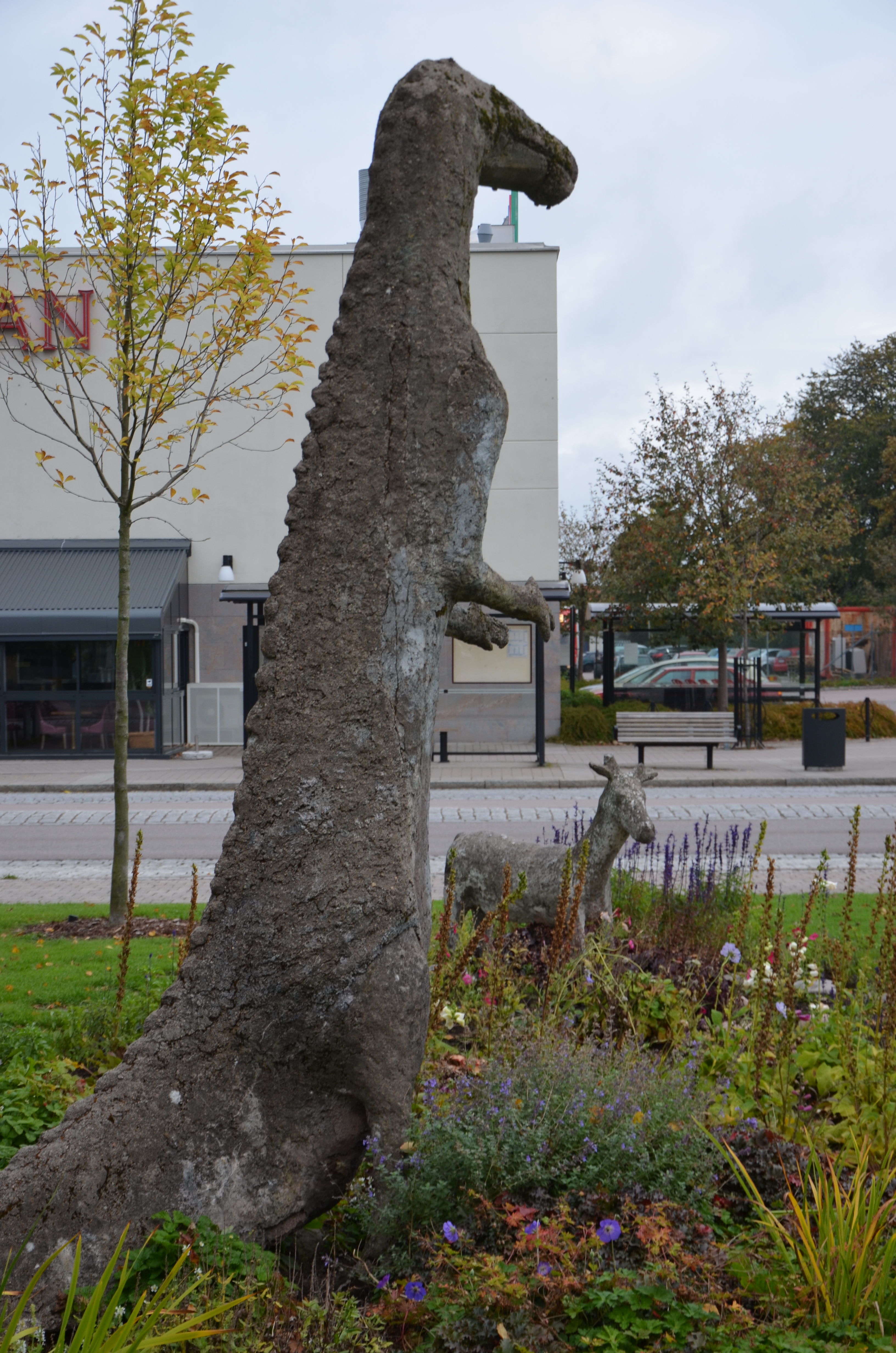 Den växtätande dinosauren samt Geten (Gasellen) av Kjell Lundberg, utanför Kulturhuset Fyren i Kungsbacka.